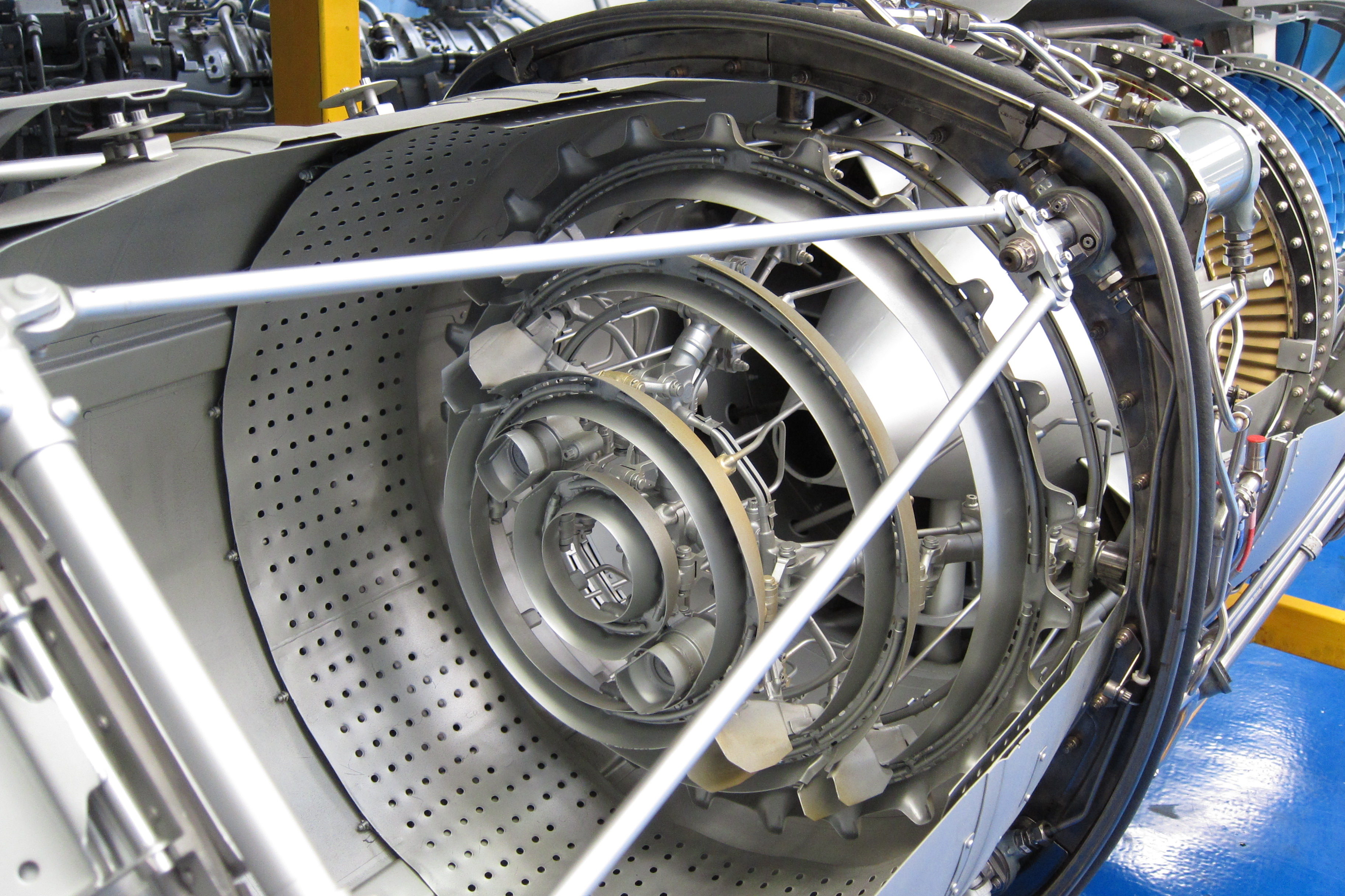 The rear part of a sectioned Rolls-Royce Turboméca Adour turbofan displayed at the Musée de l’Air in Paris, France. Air flow is from top right to bottom left. The afterburner with its four combustion rings is clearly seen at the center. During cruise flight, no combustion takes place there and the afterburner generates pressure loss without an increase in gas energy.